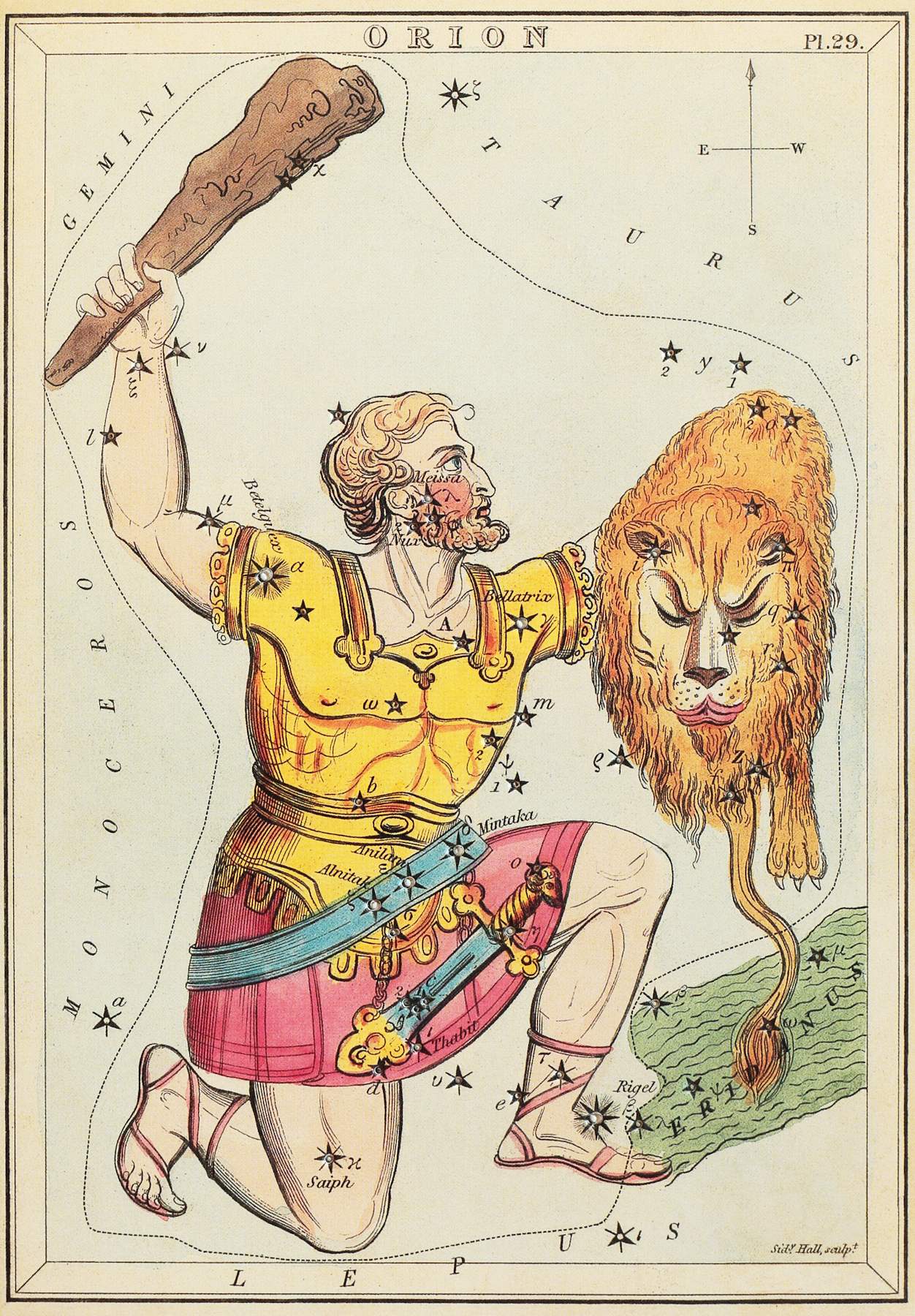 "Orion", plate 29 in Urania's Mirror, a set of celestial cards accompanied by A familiar treatise on astronomy ... by Jehoshaphat Aspin. London. Astronomical chart, 1 print on layered paper board : etching, hand-colored.